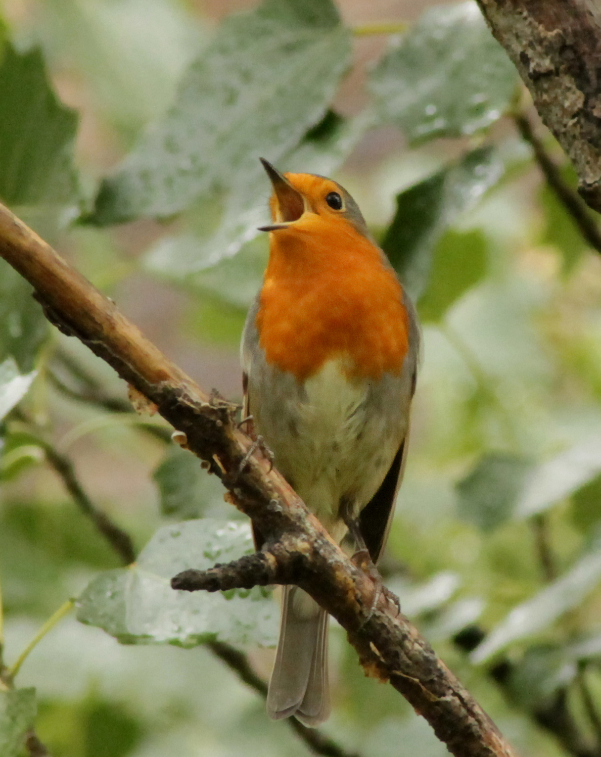 A European Robin (Erithacus rubecula) singing in Madrid (Spain).